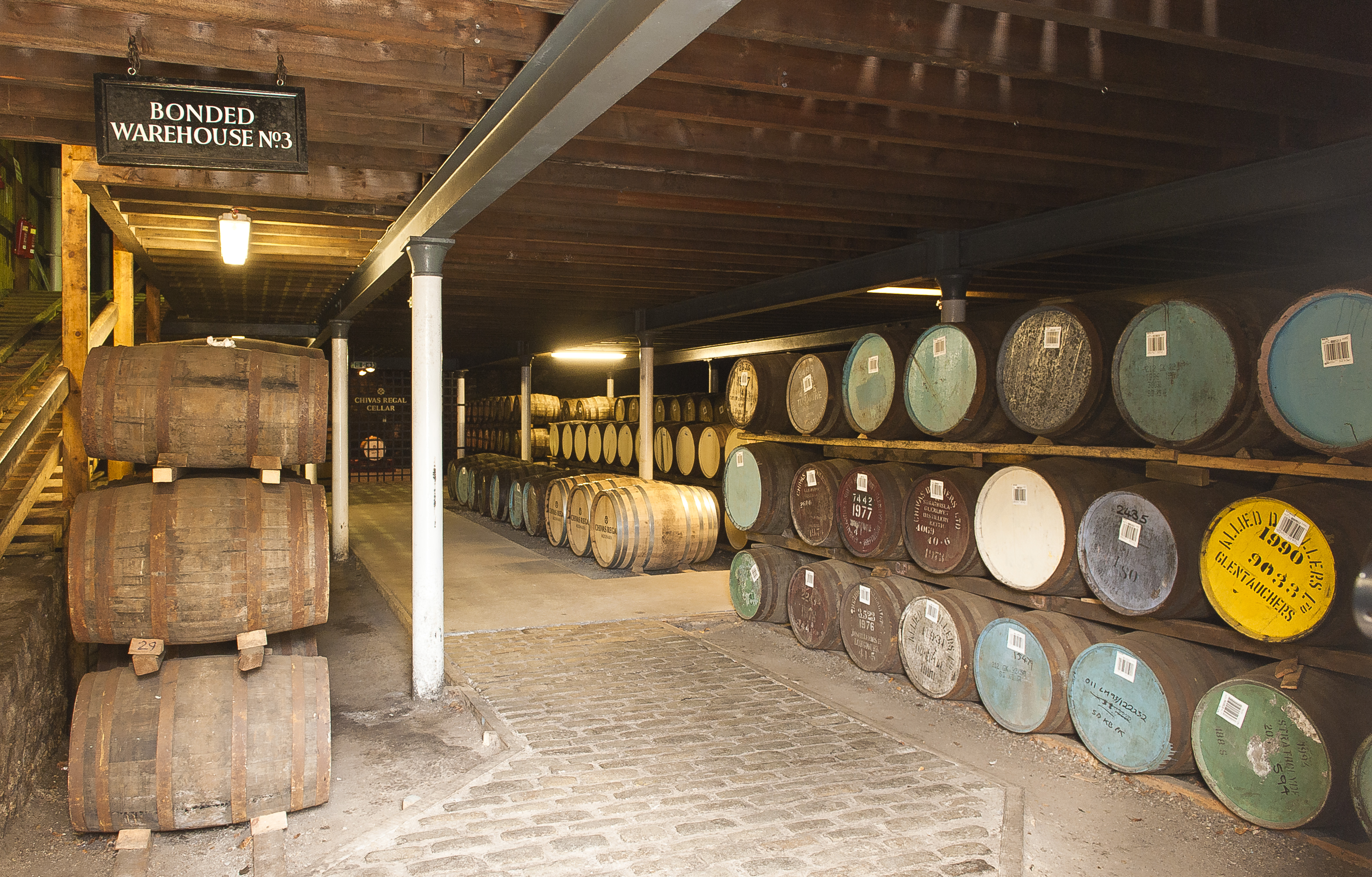 Strathisla distillery, Keith, Scotland